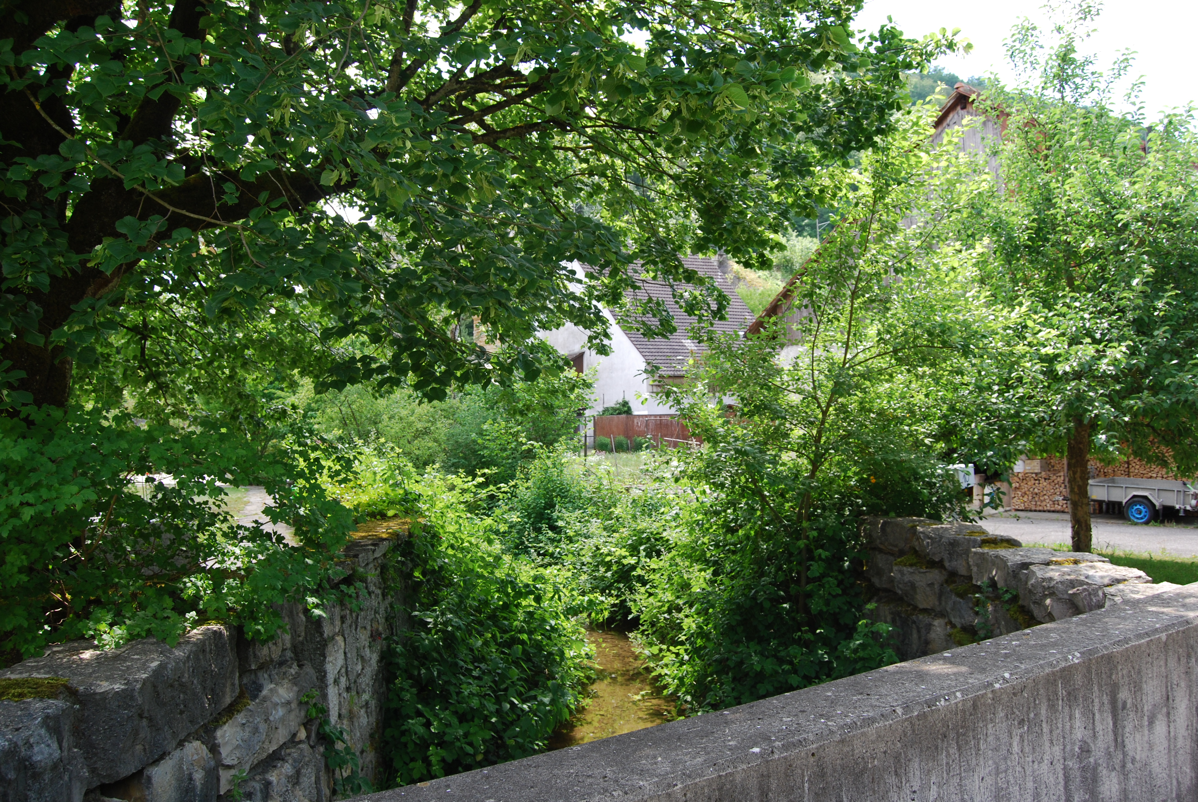 Stream Homburgerbach at Rümlingen, canton of Basel-Country, Switzerland